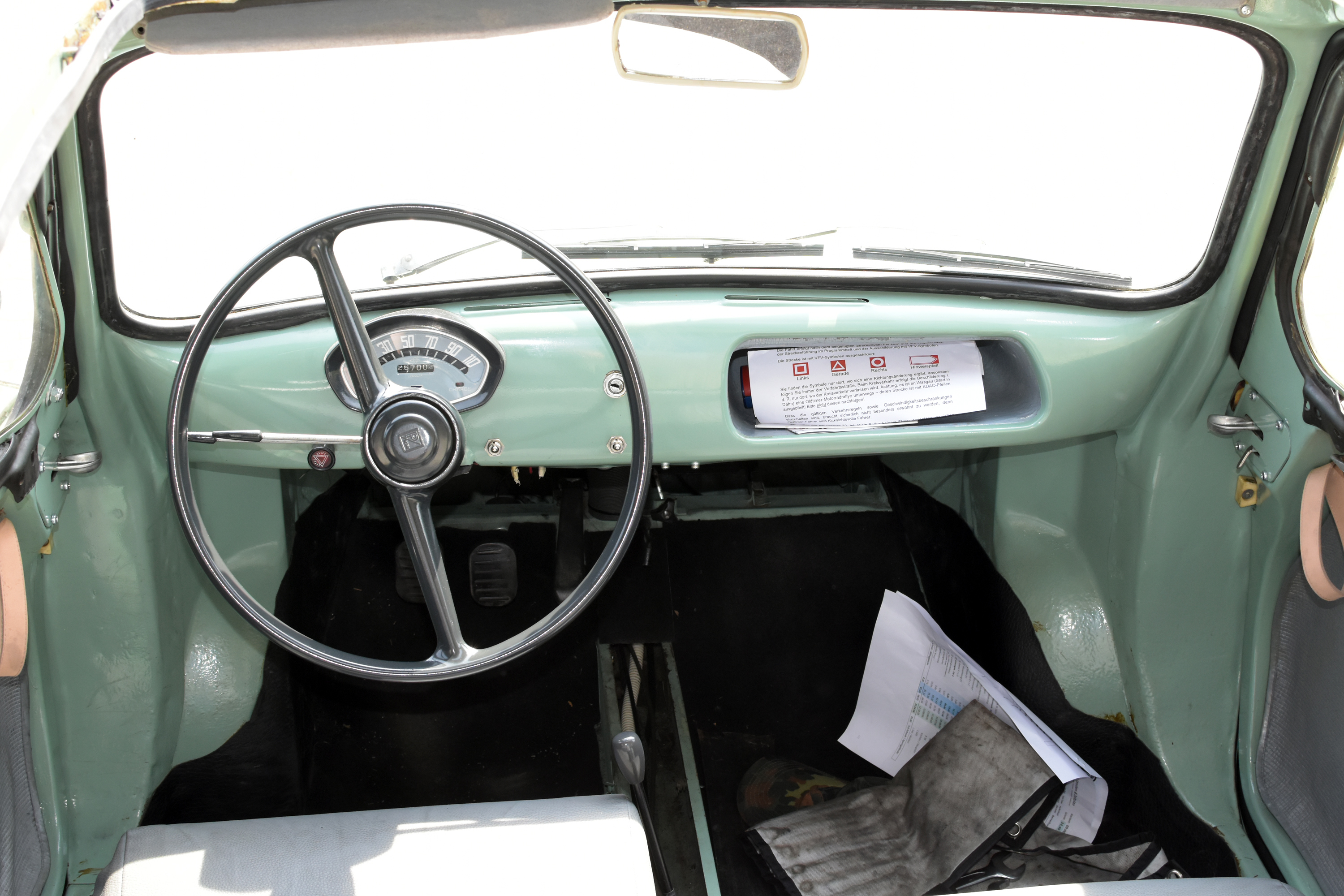 Vespa 400, 1958